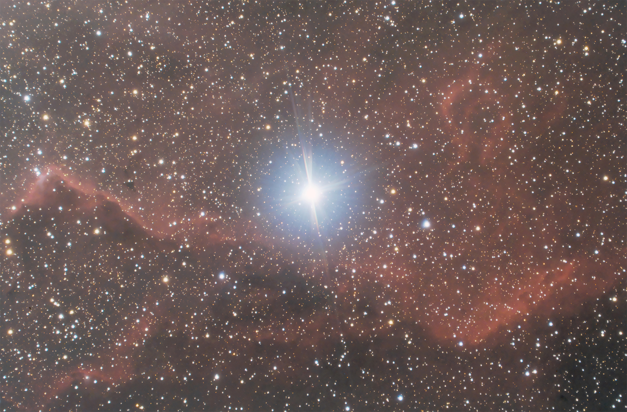 Lambda Centauri Star Imaged with Celestron EdgeHD 9.25" ZWO 294 MC Pro astronomical camera.